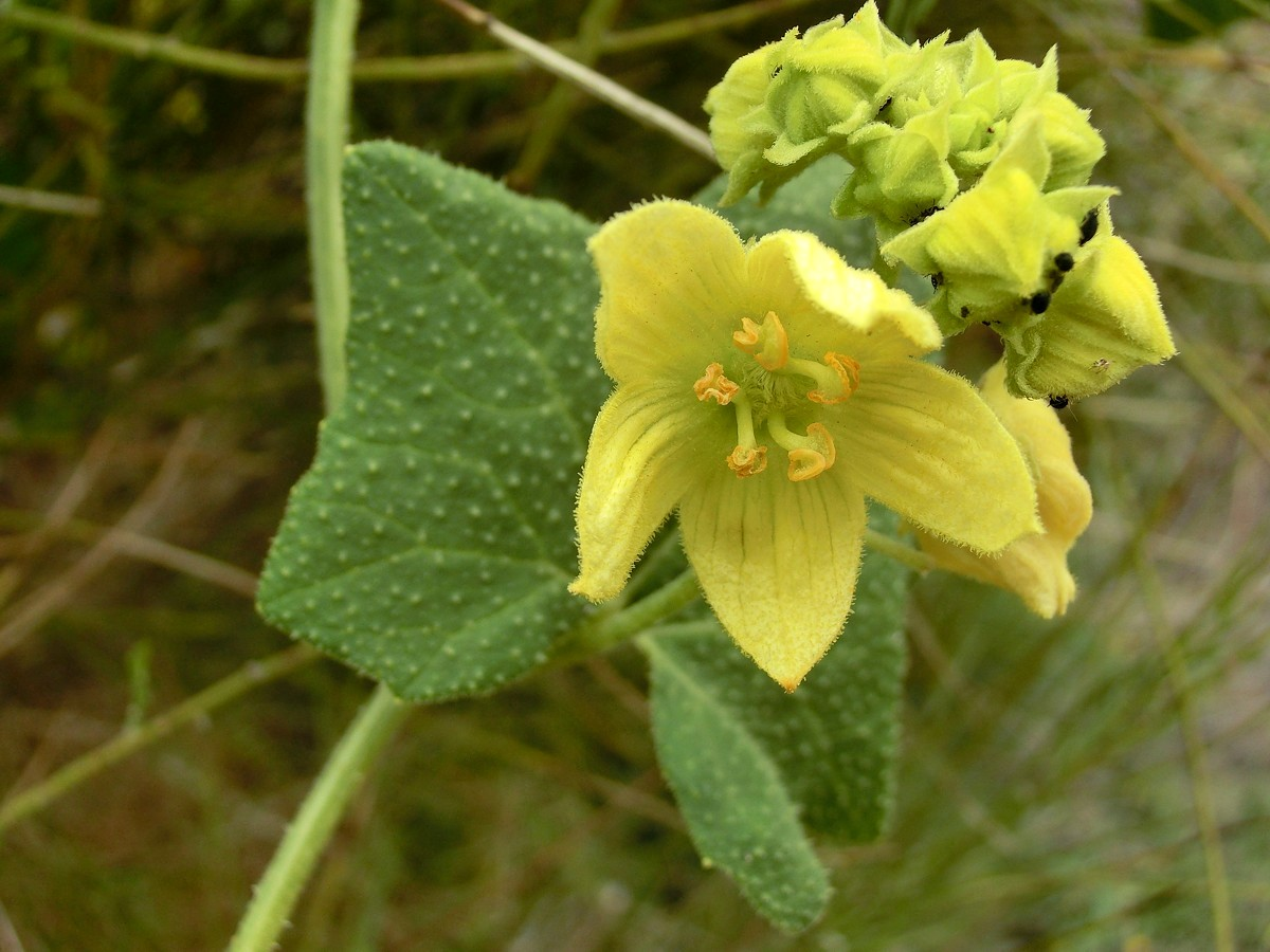 Bryonia verrucosa, flower. W Tenerife, Teno mountains, SW Santiago del Teide above El Molledo, open shrubland, ca. 800 m above sea level.